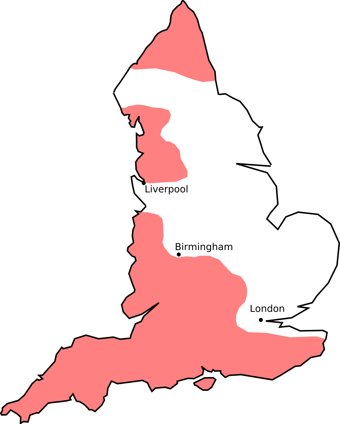 A map showing regions of England where the rural accent was rhotic as of the 1950s